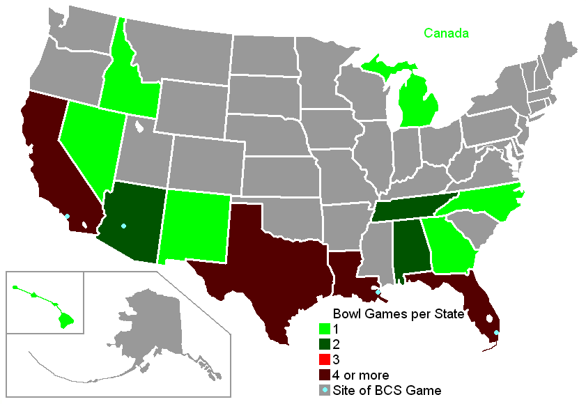 derived from :Image:BlankMap-USA-states.jpg; map of states with 2007-08 NCAA football bowl games schools (and their division)